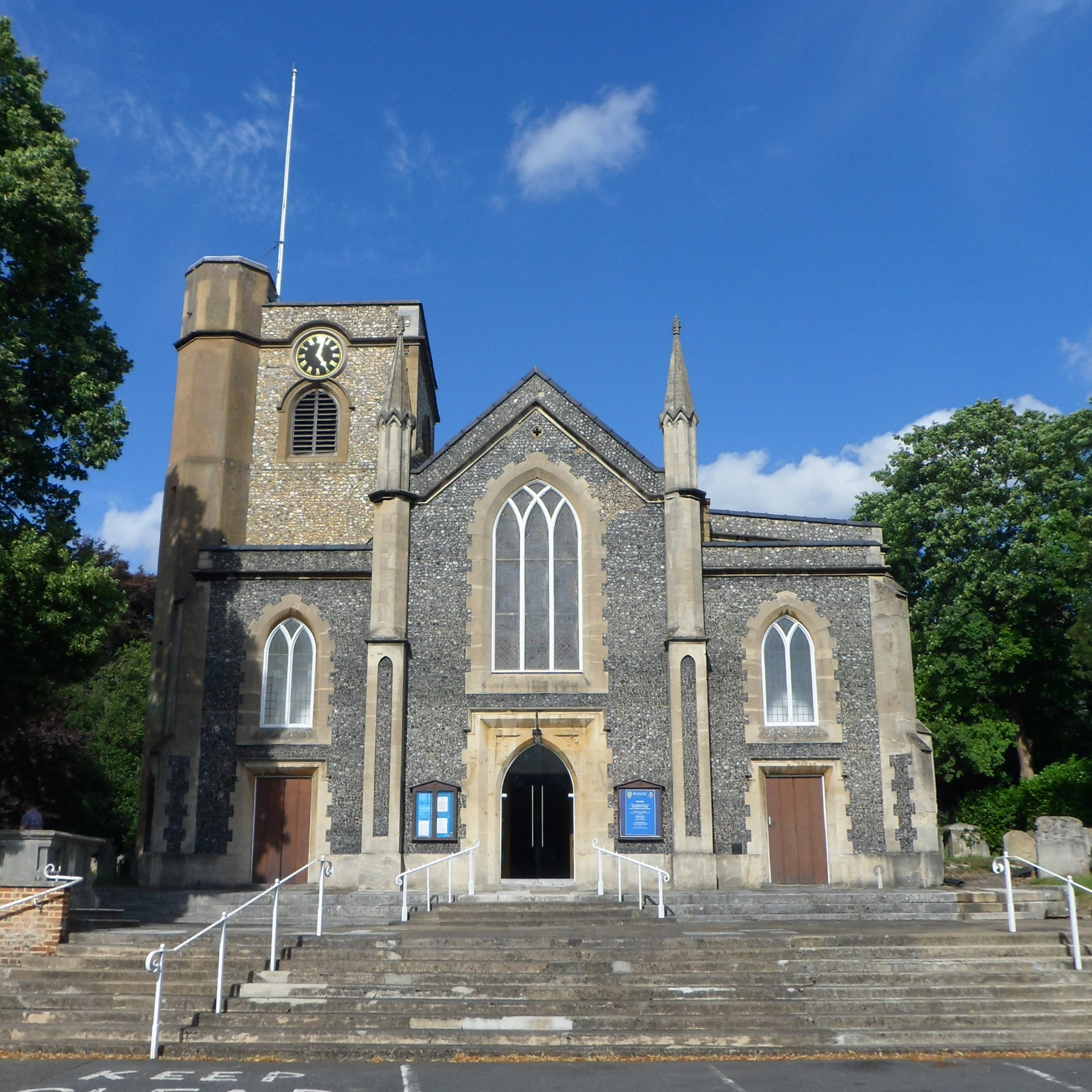 St Martin of Tours parish church, Church Street, Epsom, Surrey, England, seen from the west